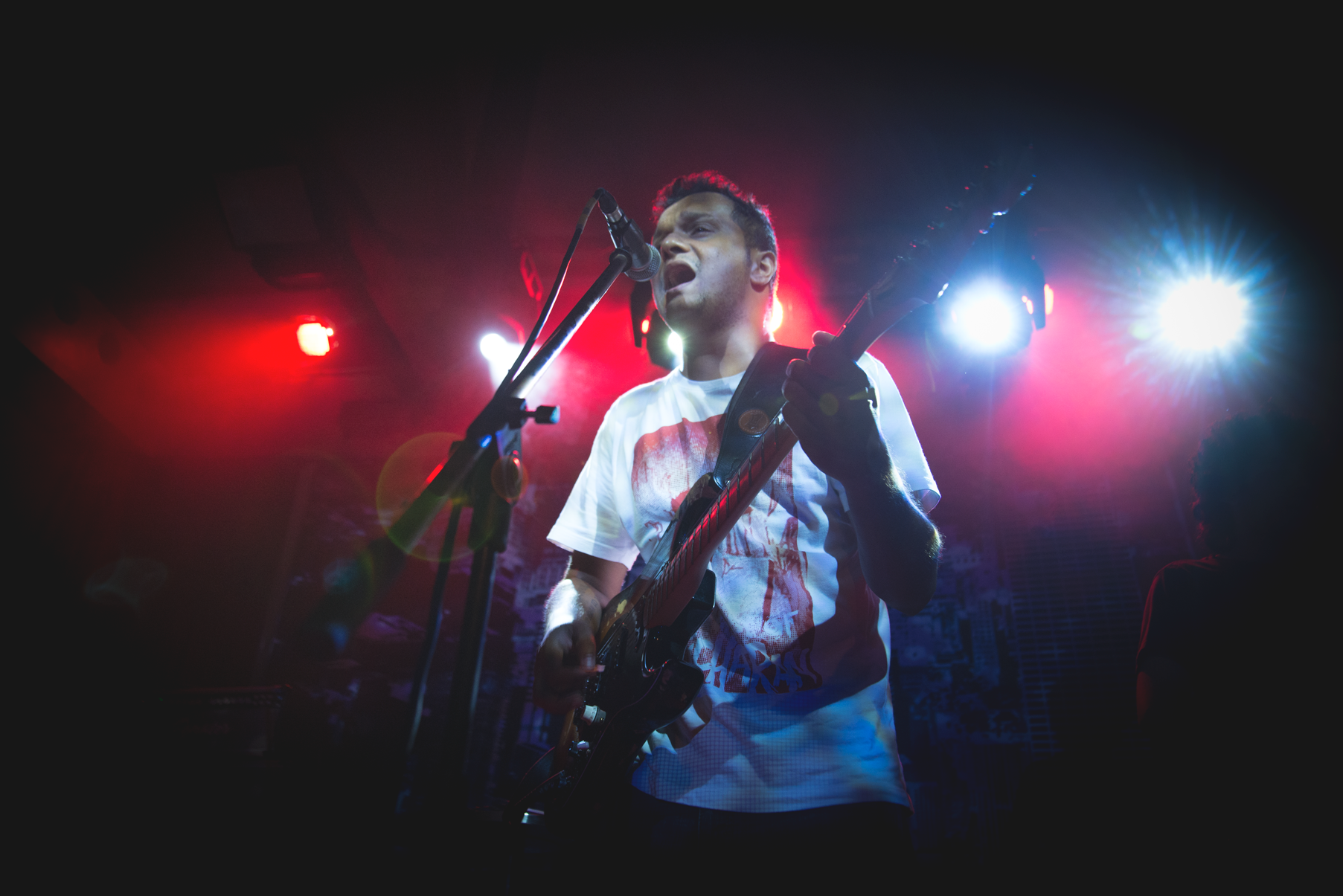 Siddharth Basrur is an Indian musician. This photo was taken from his gig at Blue Frog in 2013, during the release of his first album "Rain".